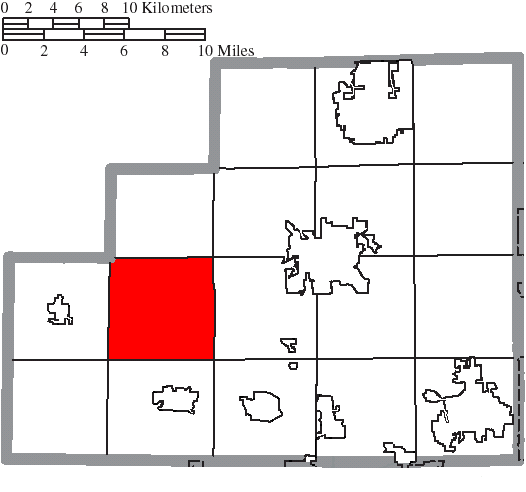 Map of the municipal and township boundaries of Medina County, Ohio, United States, as of the 2000 census, with the location of Chatham Township highlighted. Township borders are shown only in unincorporated areas in order to differentiate incorporated and unincorporated areas more clearly.